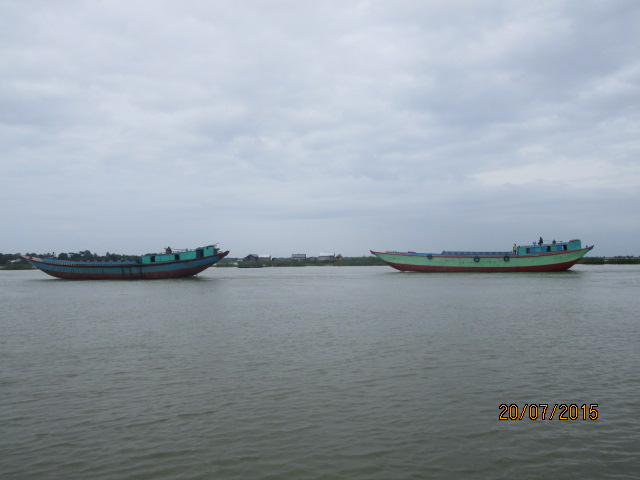 The boats on Dhanu river at Khalijuri upazila